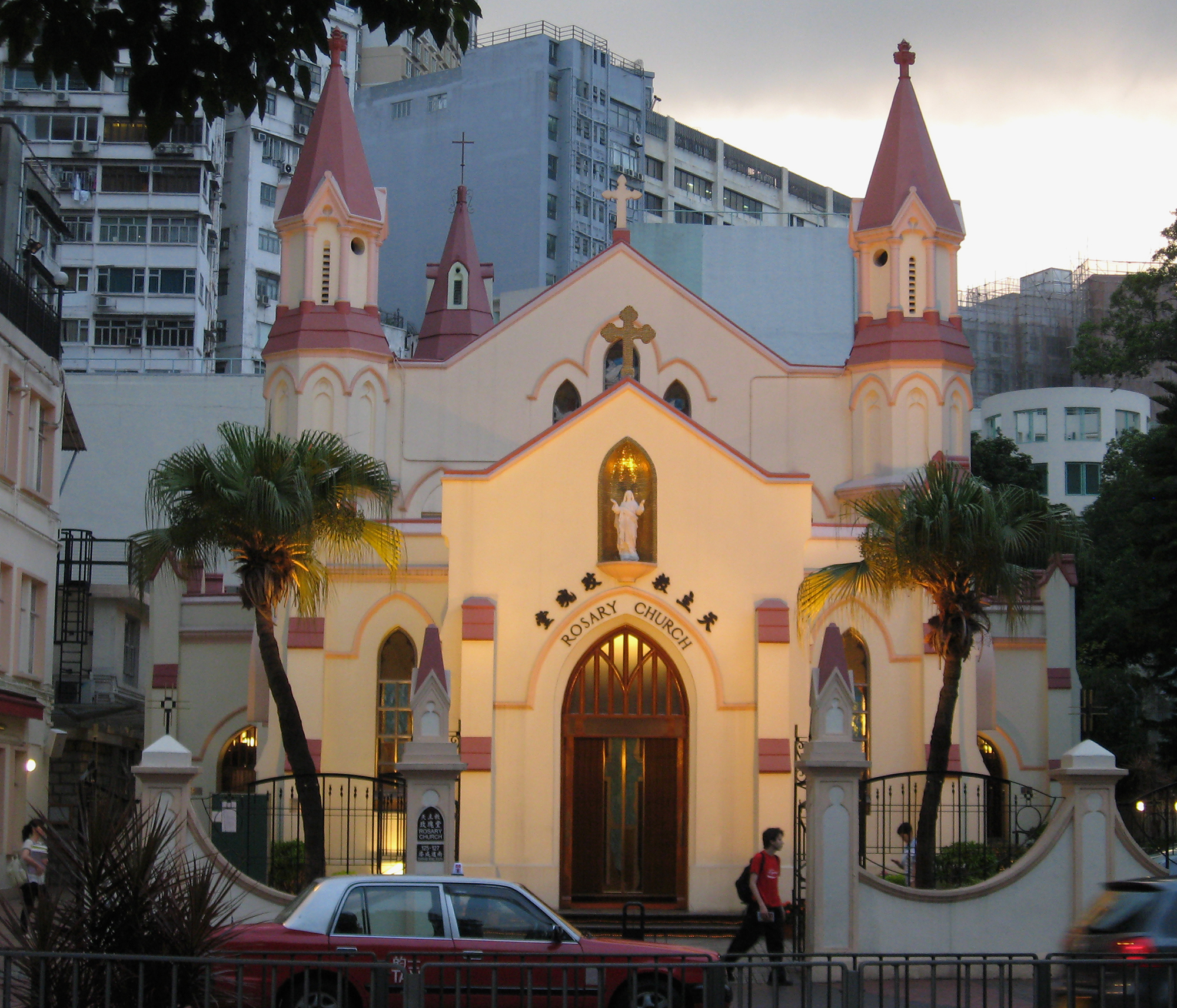 Rosary Church in Kowloon, near Polytechnic University